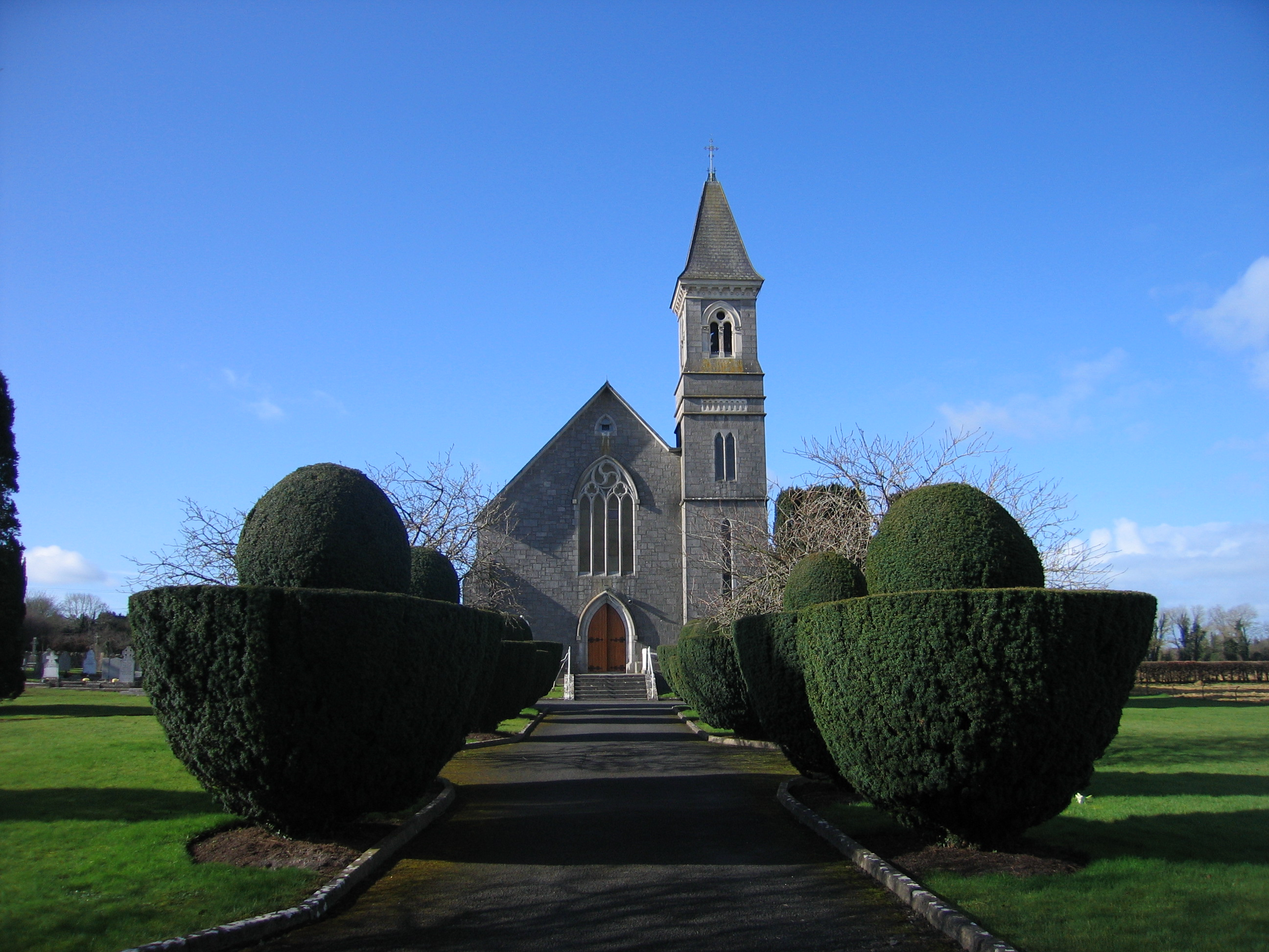 Emo, County Laois, near to Emo, Kennel Cross Roads, New Inn Cross Roads, The Togher and Carn Bridge, Laois, Ireland. Excellent topiary.